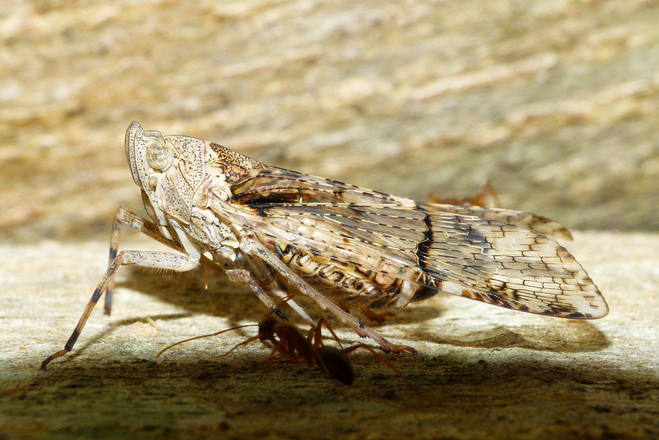 Dichoptera hyalinata, Fulgoridae, Bangalore, India